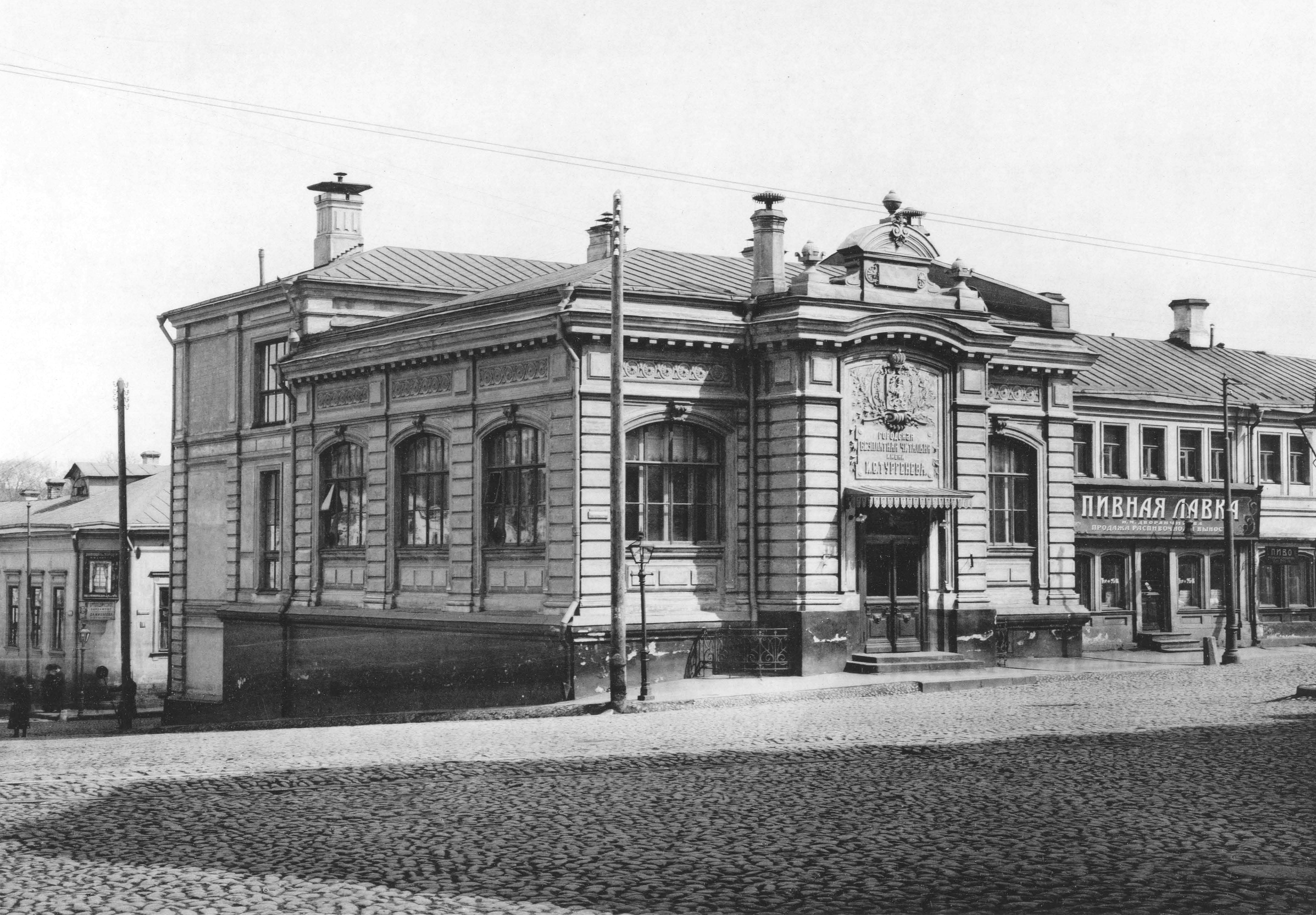 Turgenev Library, Moscow.